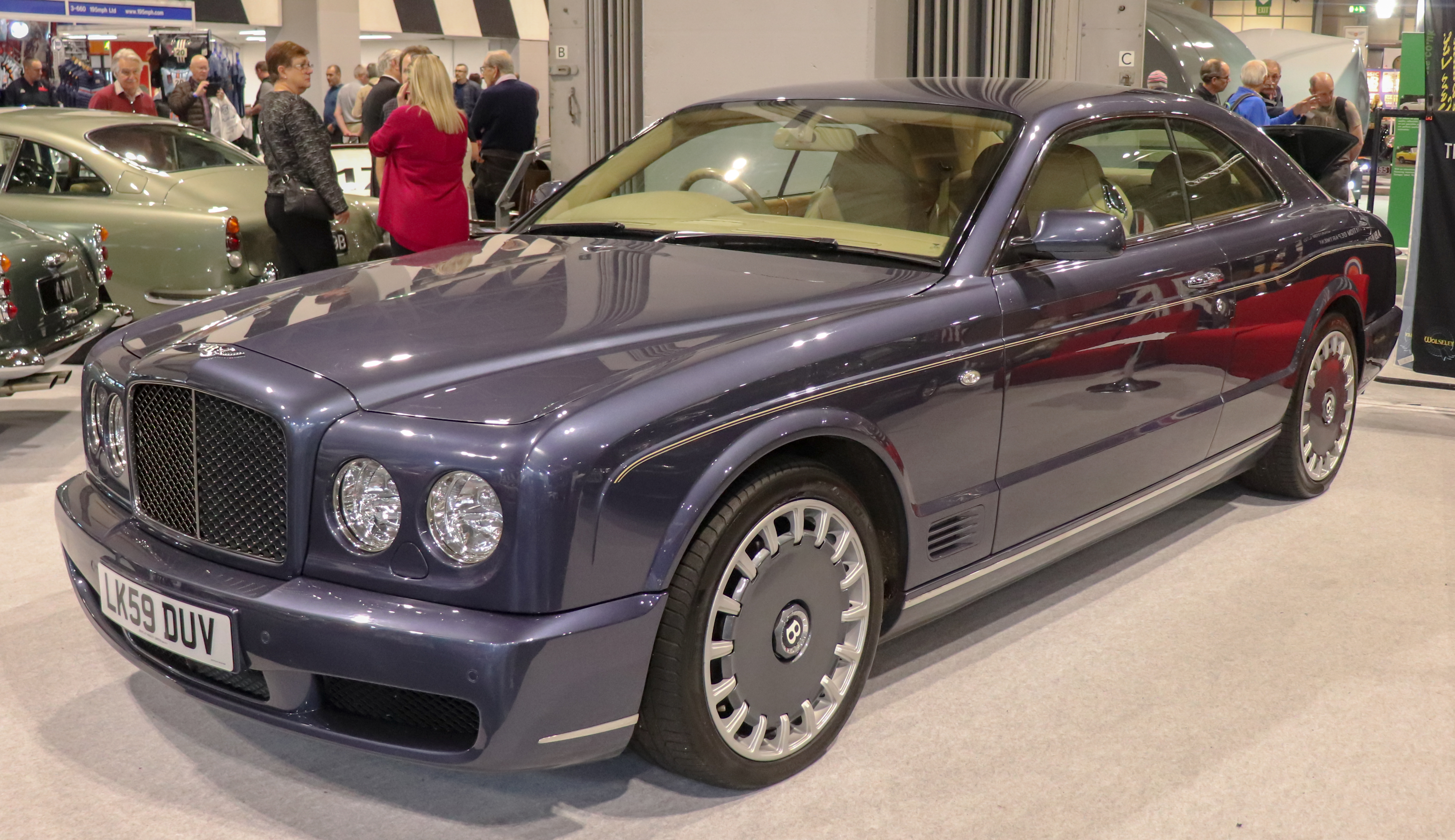 2009 Bentley Brooklands Auto 6.8 Taken at the NEC Classic Motor Show 2018